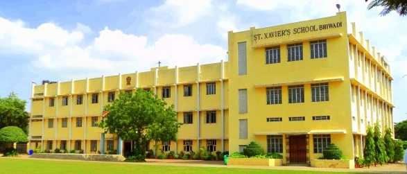 St. Xavier's School, Bhiwadi is a Christian minority school under the management of Jesuits of Delhi Province of the Society of Jesus, an International Catholic Religious Order, in collaboration with Franciscan Sisters of Our Lady of Graces. Started in 1993, the school is affiliated to the Central Board of Secondary Education (CBSE) for the All India Secondary School Examination (Class X) and All India Senior School Certificate Examination (Class XII).